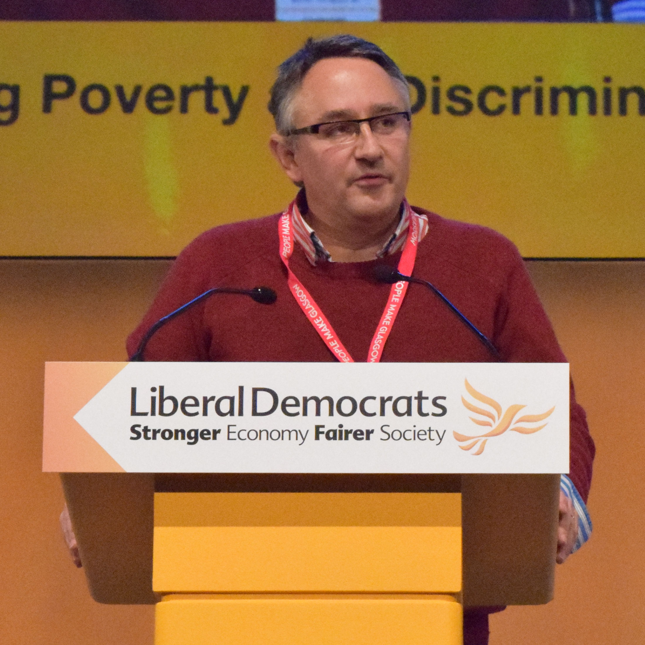 Martin Horwood speaking at a Liberal Democrat conference in the Clyde Auditorium, Glasgow, 2014.